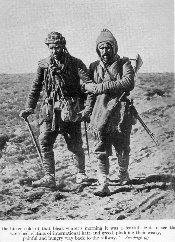 Ottoman Sufferings during the balkan wars